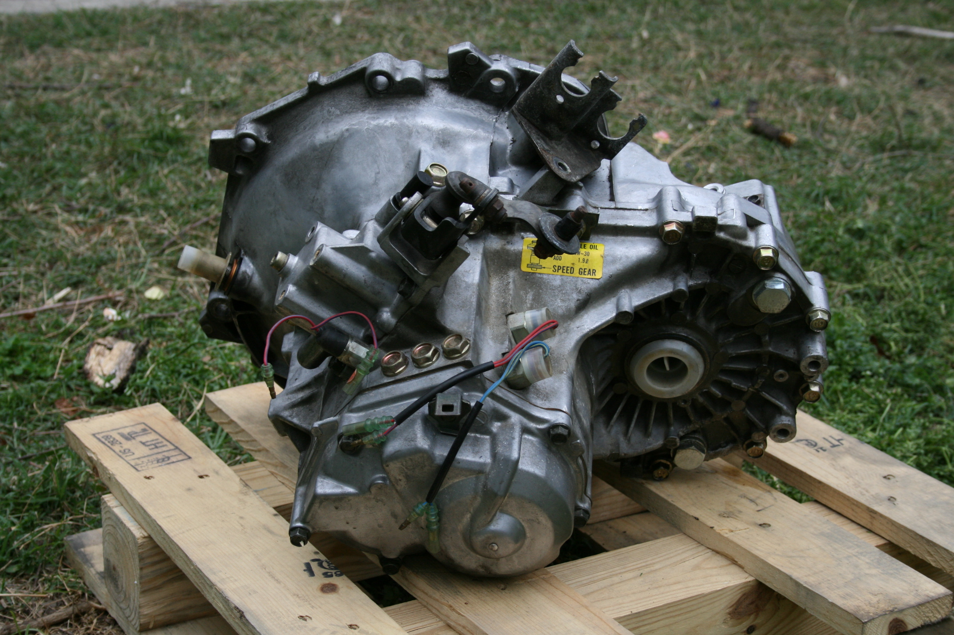 Five-speed manual transmission from a 1990 Geo Storm on a wooden pallet. This view shows the side opposite the one that mates with the motor.